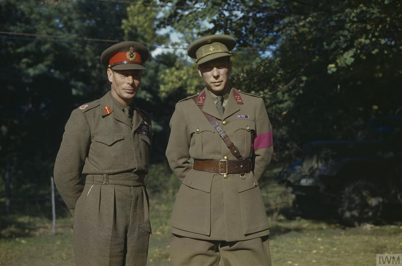 Hm King George Vi With the British Liberation Army in Belgium, October 1944 HM King George VI with Prince Charles, Regent of Belgium. The King lunched with the Prince at the Headquarters of the Canadian Army in Belgium.